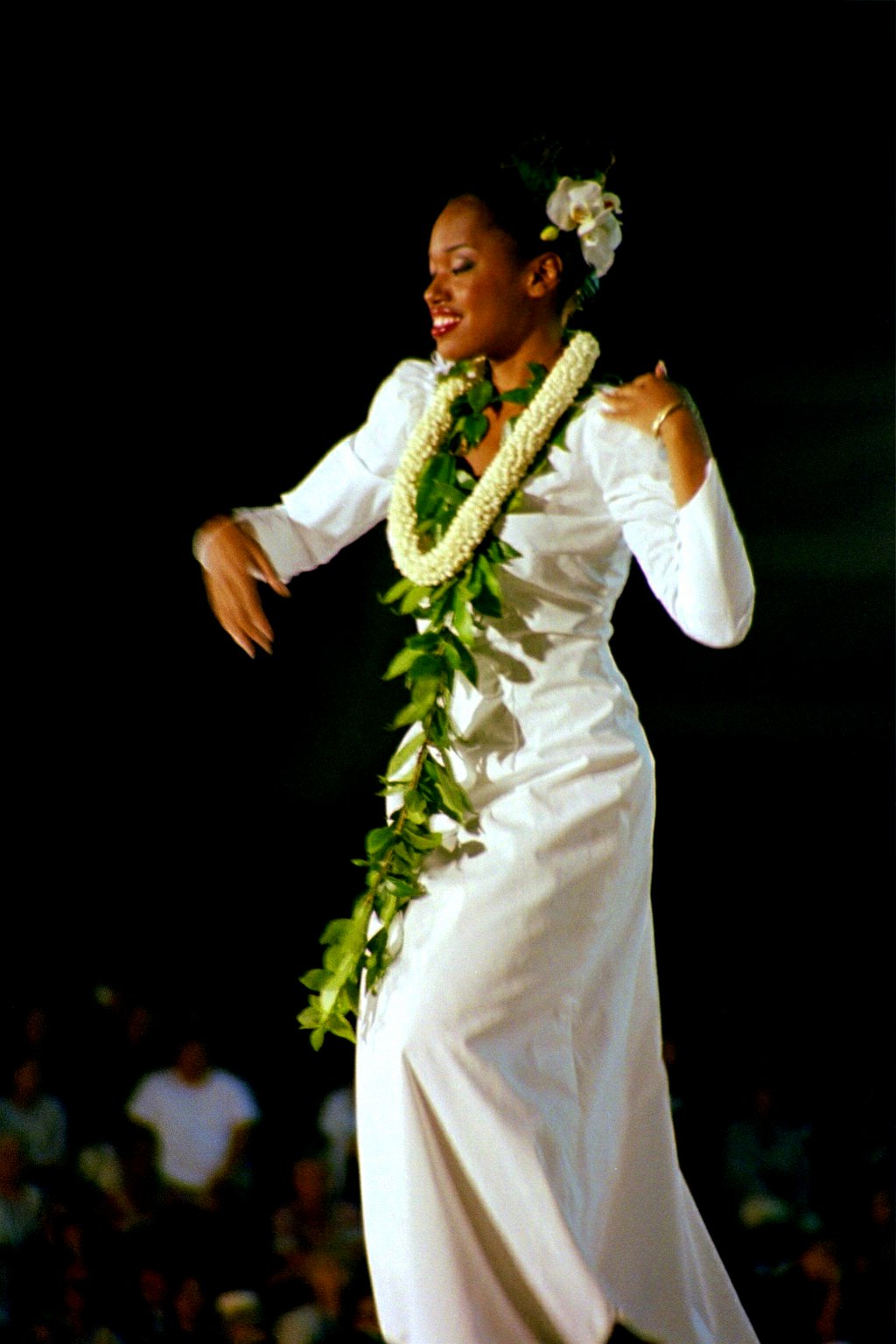 Tänzerin beim Hula ʻauana im Wettbewerb "Miss Aloha Hula", Merrie Monarch Festival 2003, Hilo, Hawaiʻi, USA; Pentax Z 20, Tamron Zoom AF/MF 3,8-5,6/28-200 mm aspherical